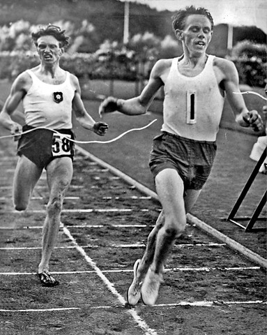 Swedish runners Arne Andersson (left) and Gunder Hägg (right) at Slottsskogsvallen in Gothenburg, Sweden. The distance is one mile, and the time 4.06,2 is the new world record.